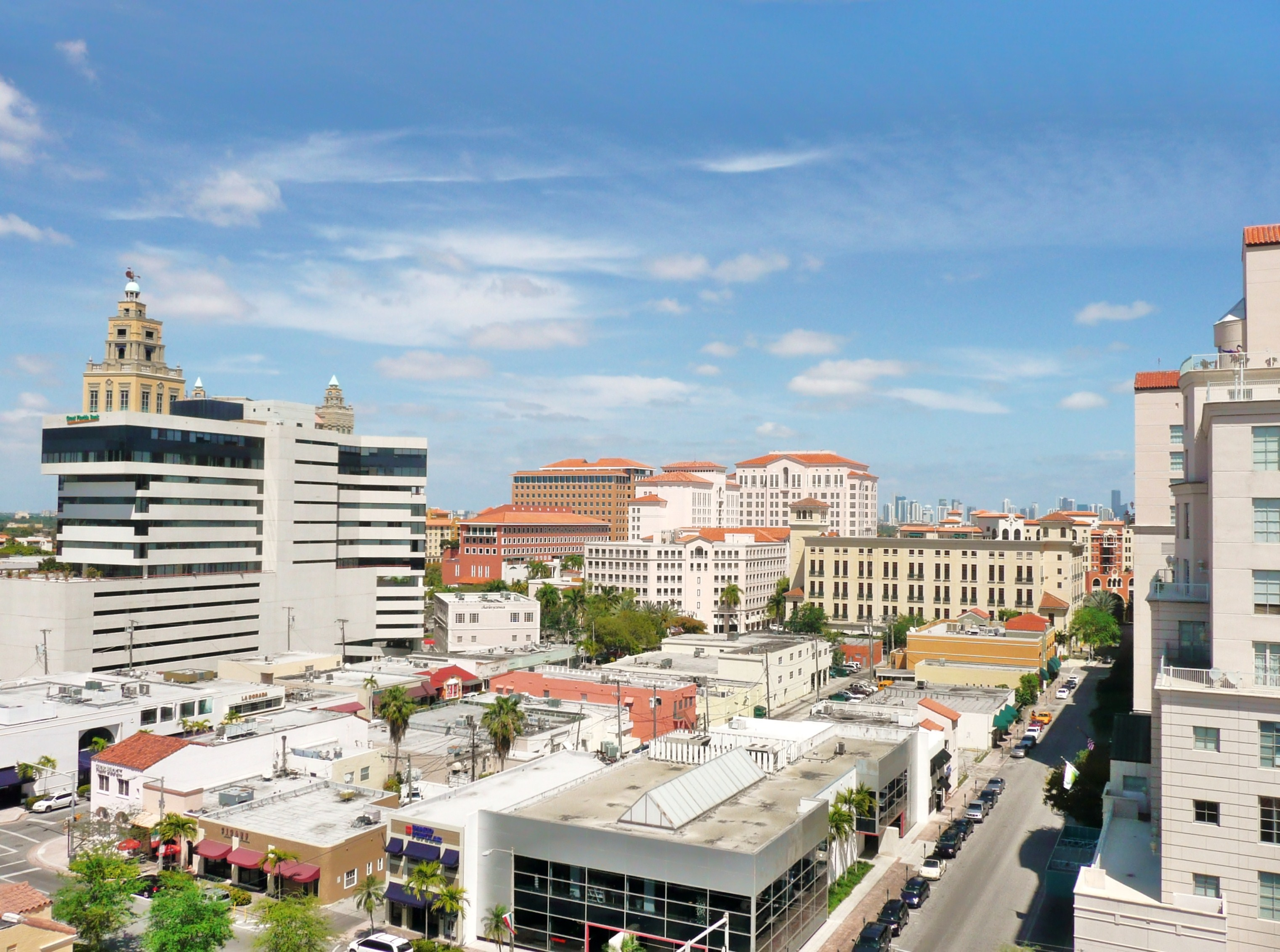 Digital photo taken by Marc Averette. Coral Gables, Florida, United States. partial skyline